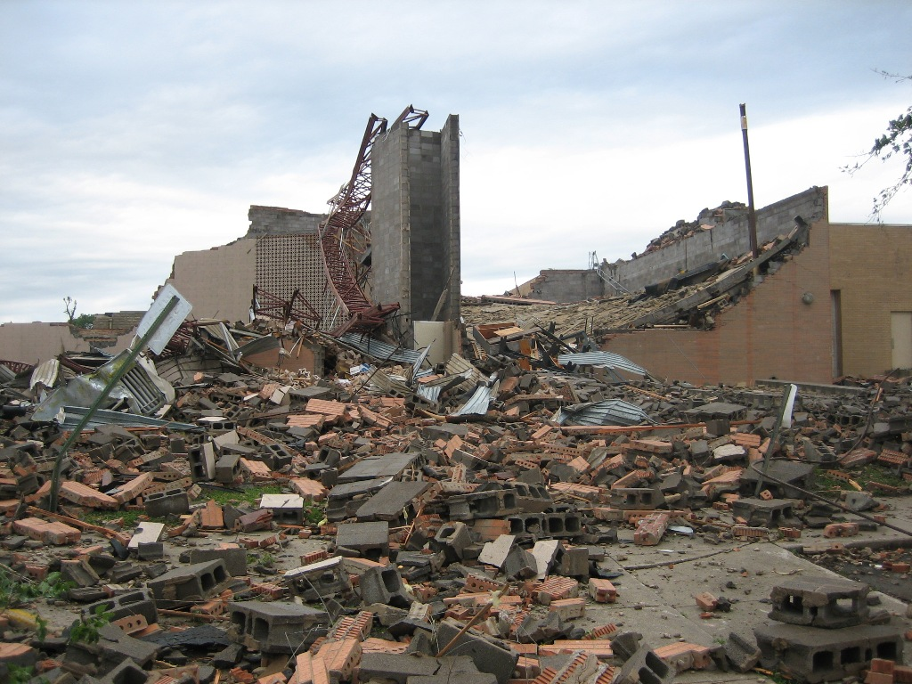 Damage at Chapman High School. Major damage was reported throughout the town of Chapman, Kansas, where about 80% of the structured sustained some form of damage with numerous structures being destroyed. The event happen on the evening of June 11, 2008. Courtesy NWS Topeka